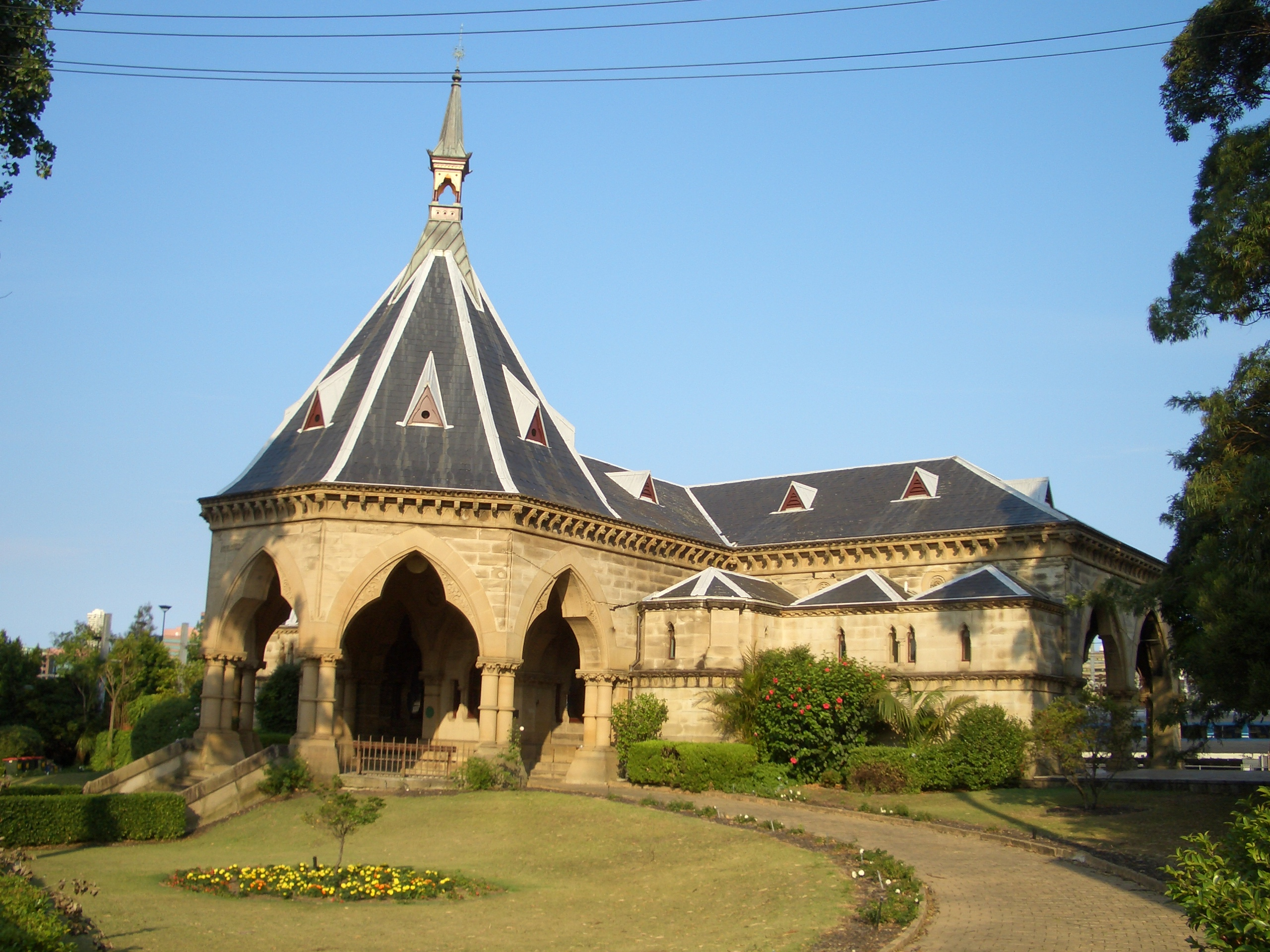 Mortuary Station Garden